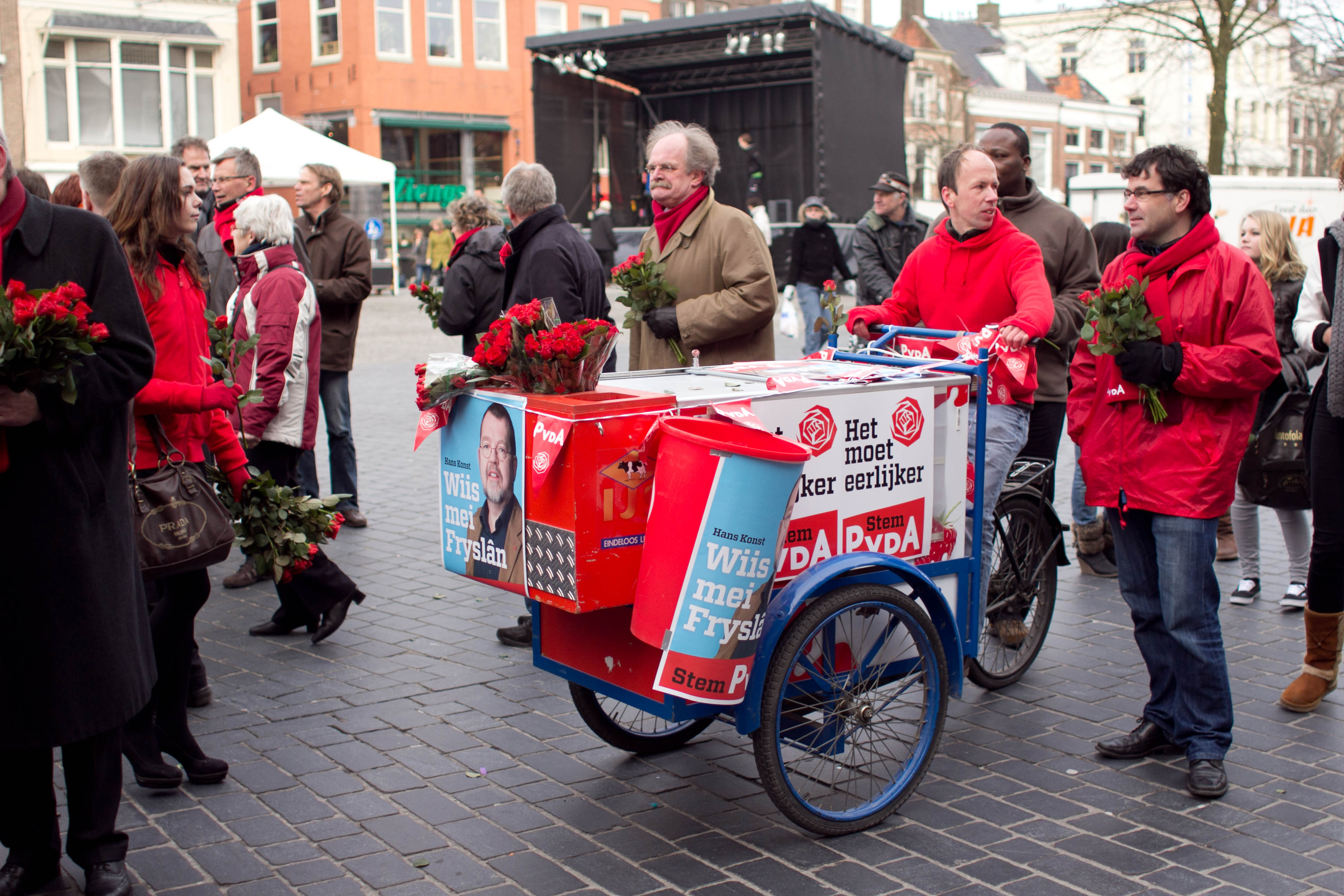 Campaigners of the Labour Party in Leeuwarden for the States-Provincial elections in 2011.